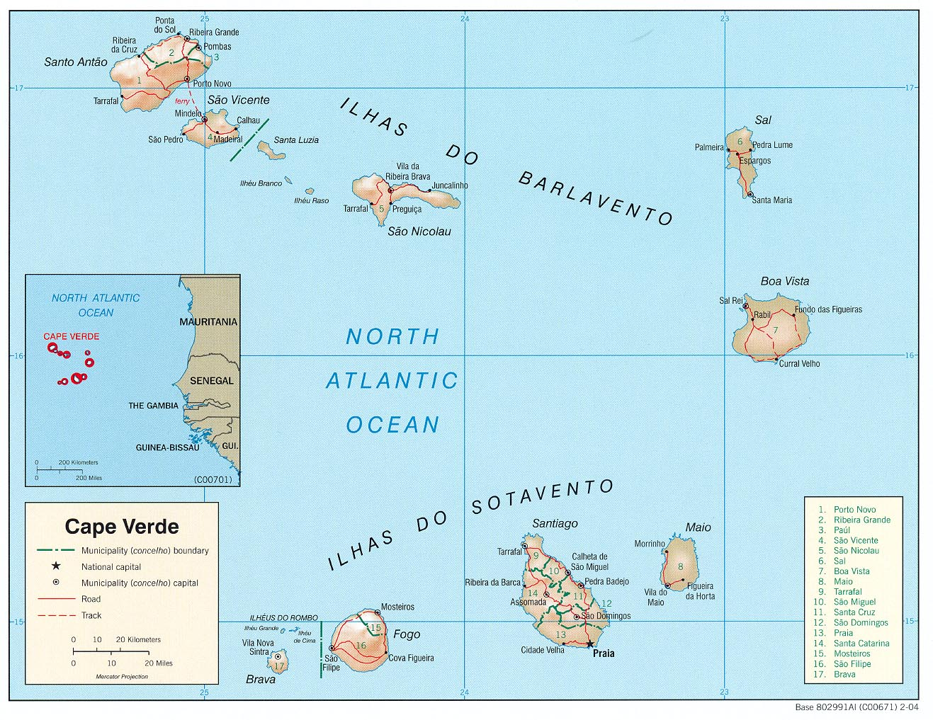 Shaded relief map of Cape Verde.